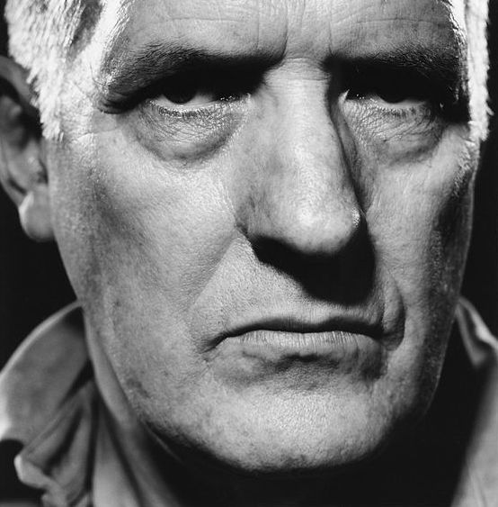 Bill Drummond